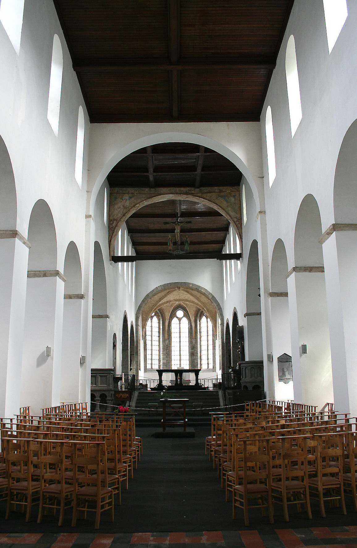 Hastière-par-delà (Belgium), nave (1033-1035) and choir (1264) of the St. Peter Abbey church.